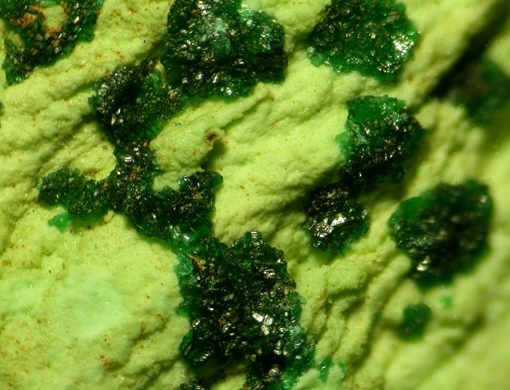 Gillardite, Gaspéite Locality: 132 North Mine, Widgiemooltha, Western Australia, Australia (Locality at ) Dark green crystal clusters of Gillardite on Gaspéite. Field of view 4 mm. Specimen and photo Leon Hupperichs.